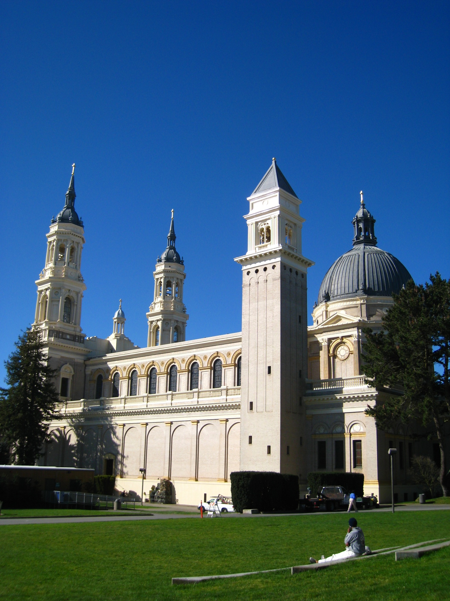 Saint Ignatius Church, University of San Francisco, left side view